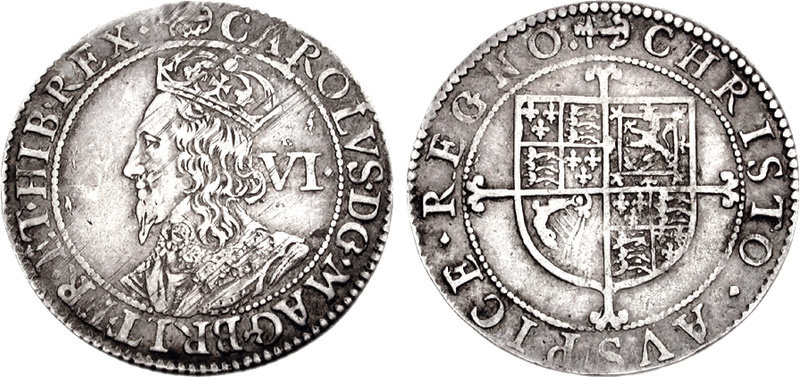 England. Charles I of England. 1625-1649. AR Sixpence (2.96 g). Nicolas Briot’s coinage, 2nd milled issue. Tower (Briot) mint; mm: anchor. Struck 1638-1639. Crowned bust left; •VI• behind Royal shield (square-topped) over cross moline. Brooker 729 (same dies); North 2306; SCBC 2860. Good VF, toned, adjustment marks and a couple small die breaks on obverse. Nicholas Briot (1579–1646) Alternative names Nicolas BriotDescriptionFrench engraverDate of birth/death 1579 24 December 1646 Location of birth/death Damblain London Work location Paris; London Authority control : Q782996 VIAF: 61821437 ISNI: 0000 0000 8141 474X ULAN: 500041327 LCCN: nb2007022485 Oxford Dict.: 3444 WorldCat creator QS:P170,Q782996